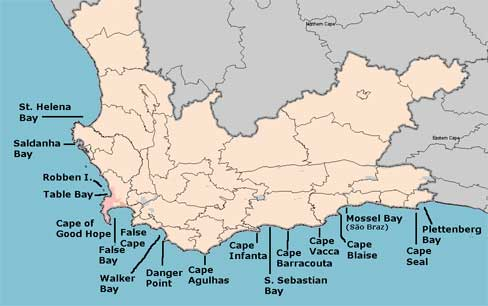 Map of the main headlands and bays of the Western Cape province of South Africa.